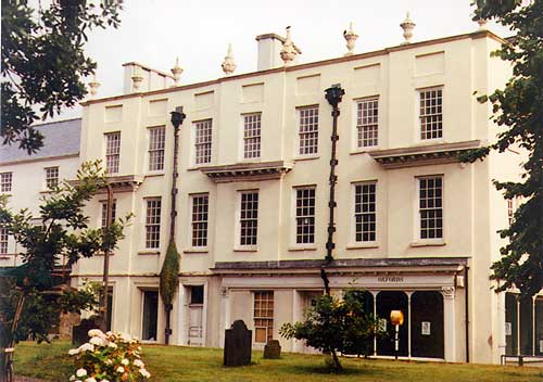 Front view of Llanelly House.